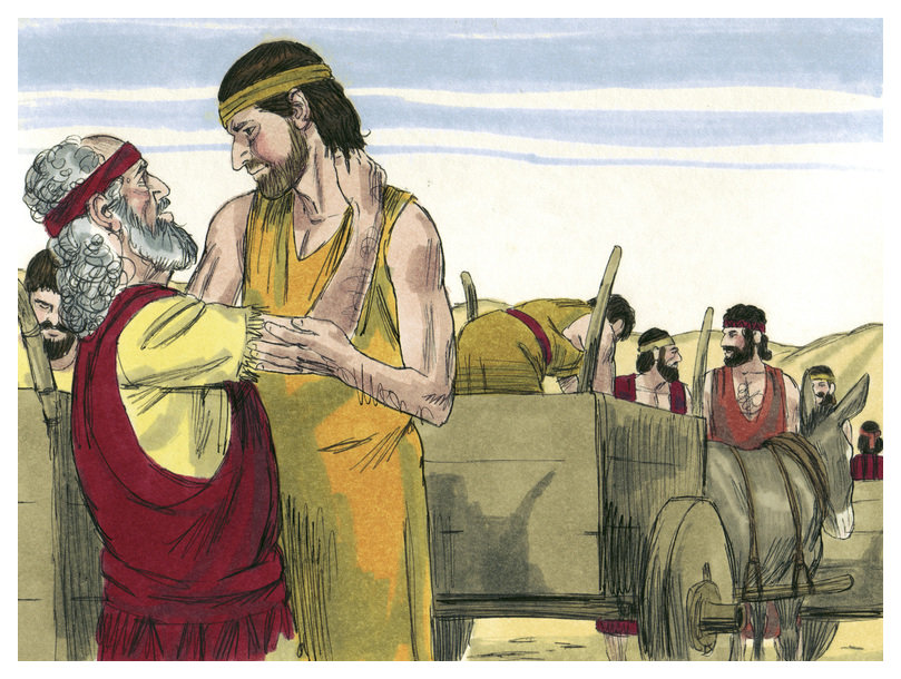 Biblical illustration of Book of Genesis Chapter 43